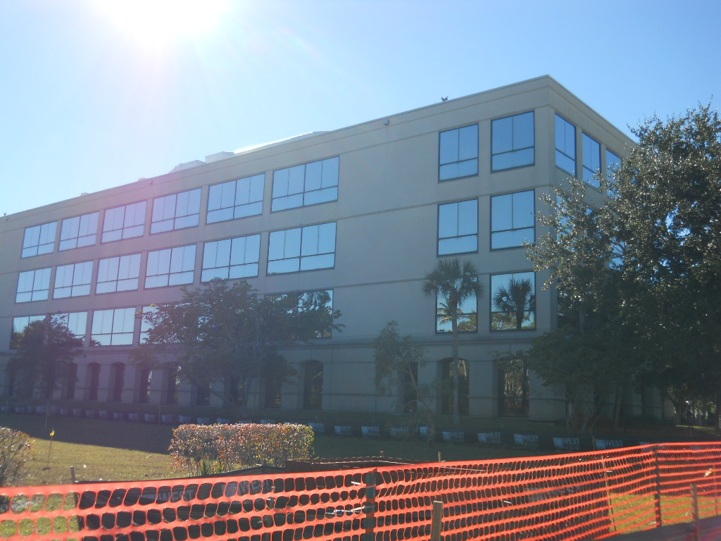 East exterior of Constitutional Officers Building in the Martin County Courthouse Complex, Stuart, Florida